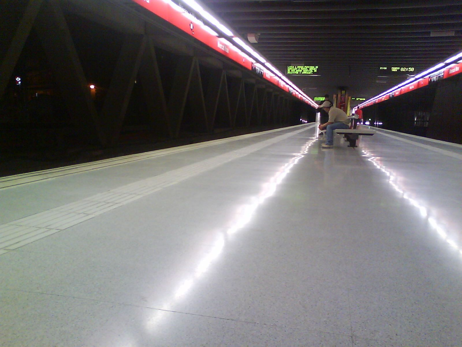 After one year of opening, the revamped Mercat Nou station looks great.Own work. Barcelona. August 2010